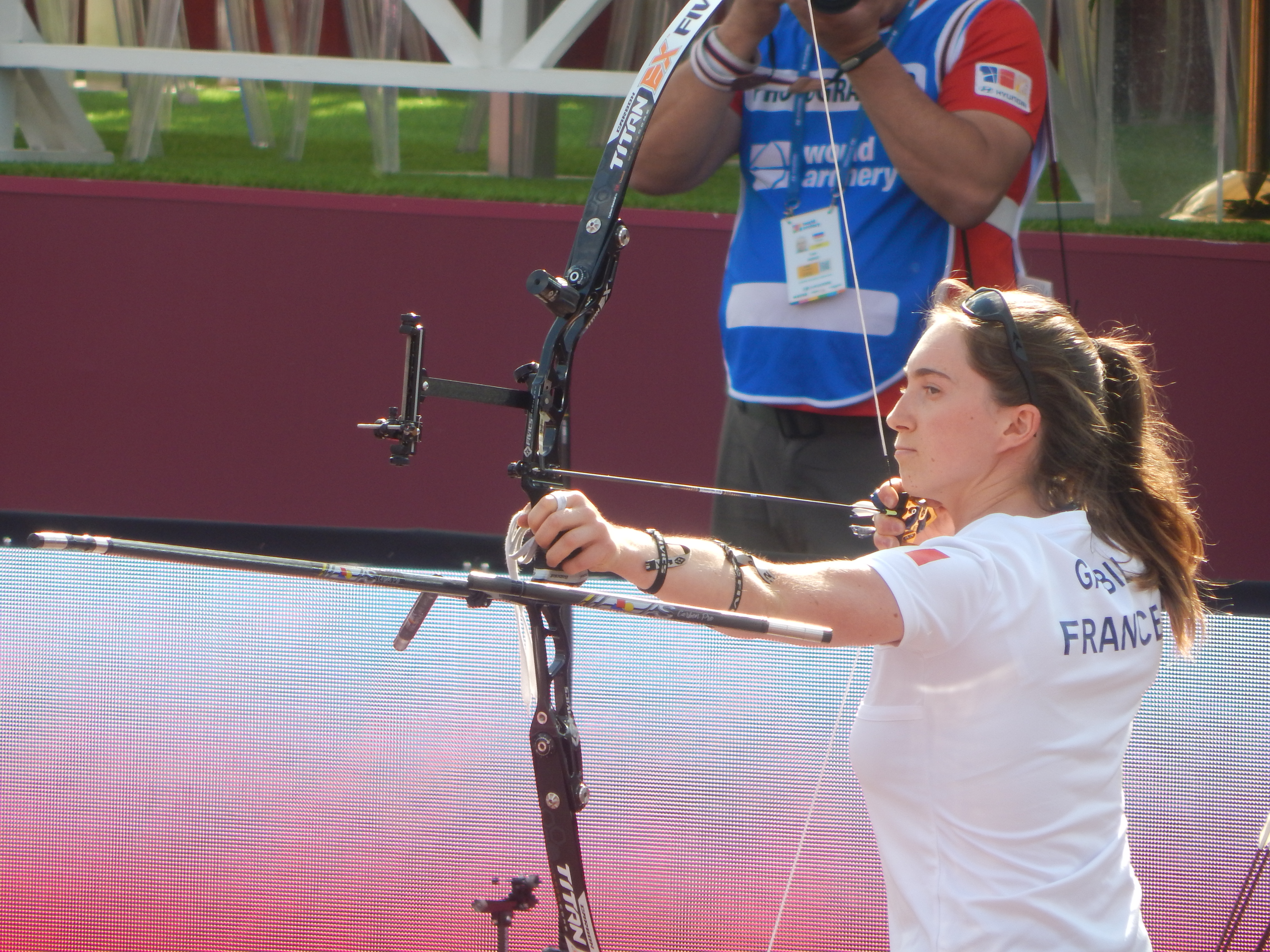 2019 Archery World Cup Final in Moscow. Women's Recurve.